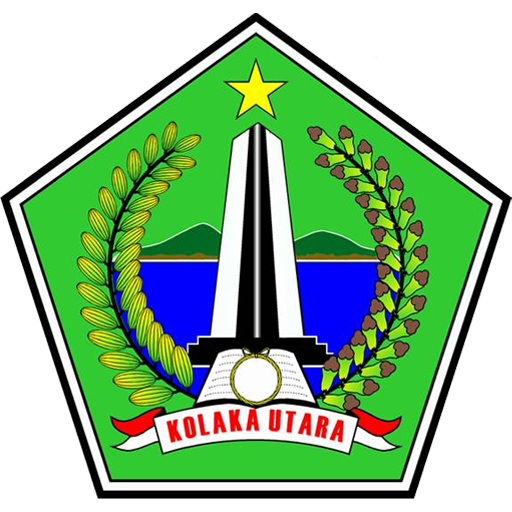 Coat of Arms (Lambang) of Regency (Kabupaten) Kolaka Utara (North Kolaka), Provinsi Sulawesi Tenggara (South East Sulawesi), Indonesia